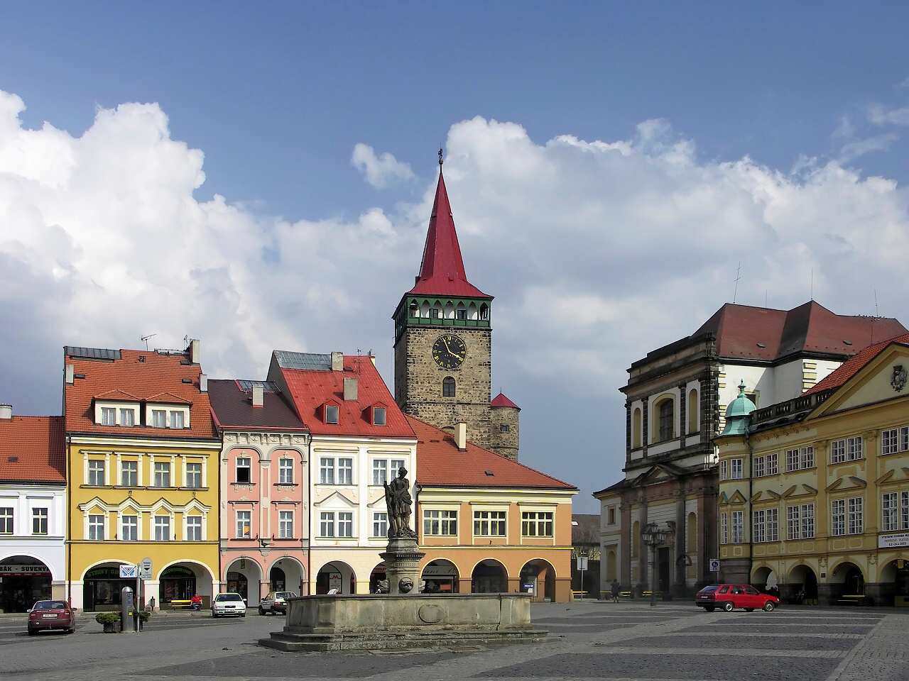 The central Waldstein's square with the Valdice gate. The Czech Republic, the town of Jičín. Picture taken in April 2005 by David Paloch.